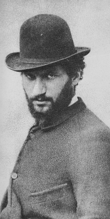 Photographic portrait of painter Emilio Longoni